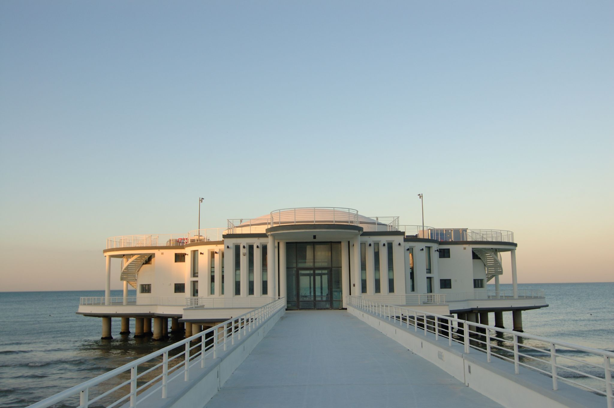 Senigallia, Marche, Italia